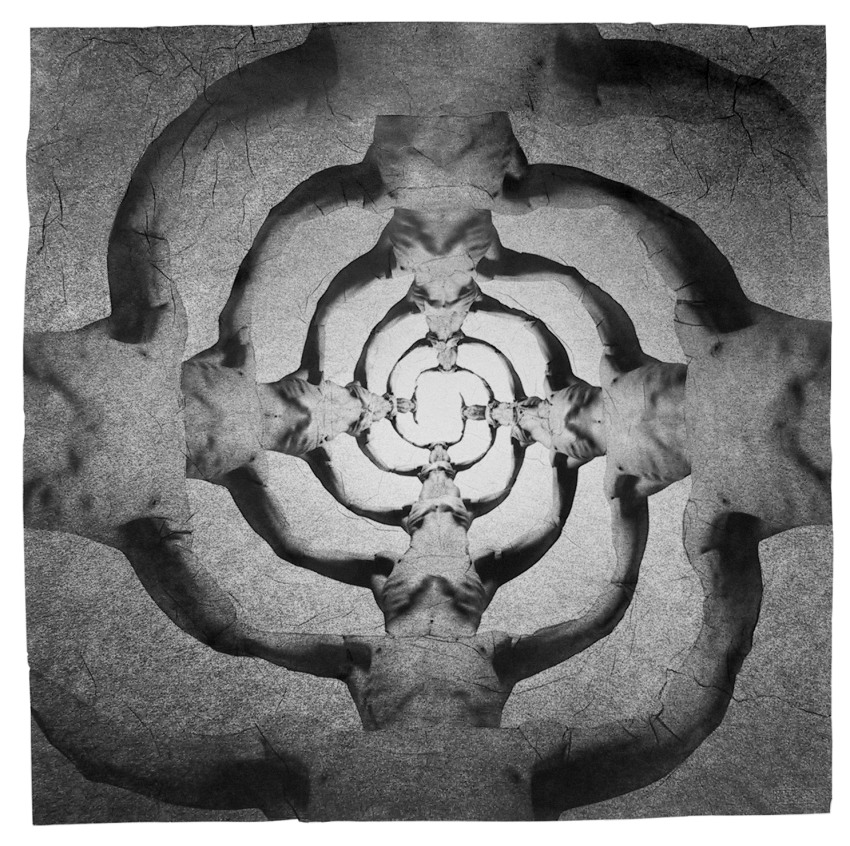 Photograph from Michal Macků